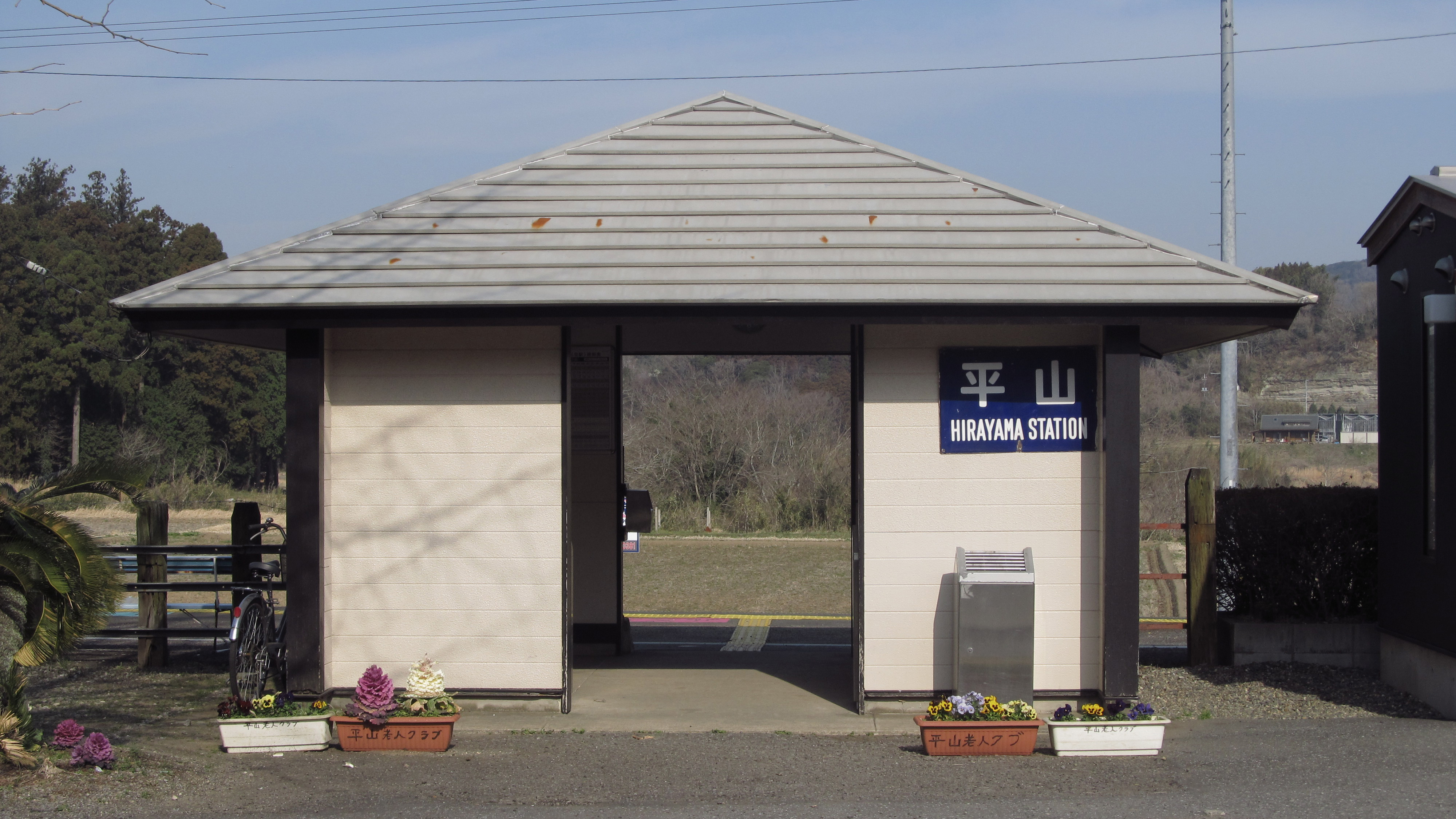 The entrance to Hirayama Station on the Kururi Line in Kimitsu city, Chiba prefecture, Japan